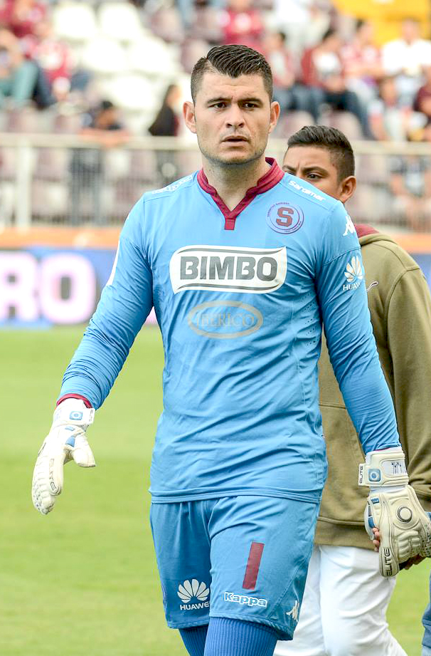 Danny Carvajal playing for Deportivo Saprissa in 2016.